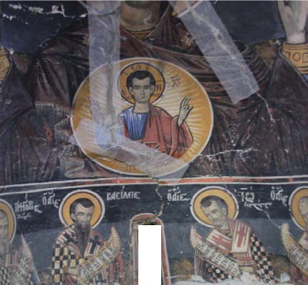 Apostles Church in Pylori Fresco